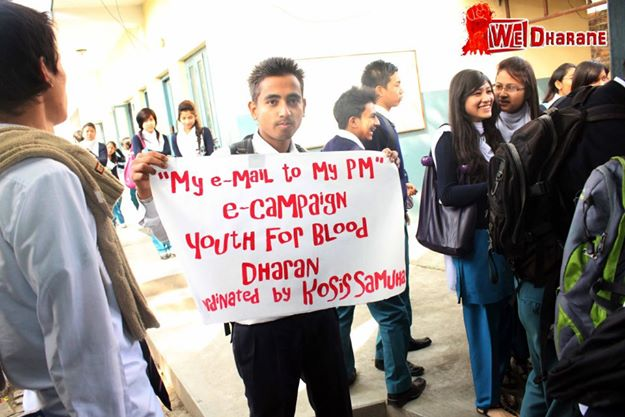 My Email To my PM campaign to email to then Prime minister of Nepal, Dr. Baburam Bhattarai to lower the service charge of BLood